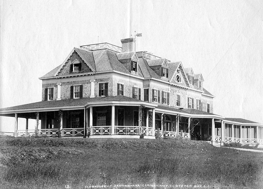 Clubhouse of the Seawanhaka Corinthian Yacht Club in Oyster Bay, Long Island, NY, as it appeared in the 1890s.